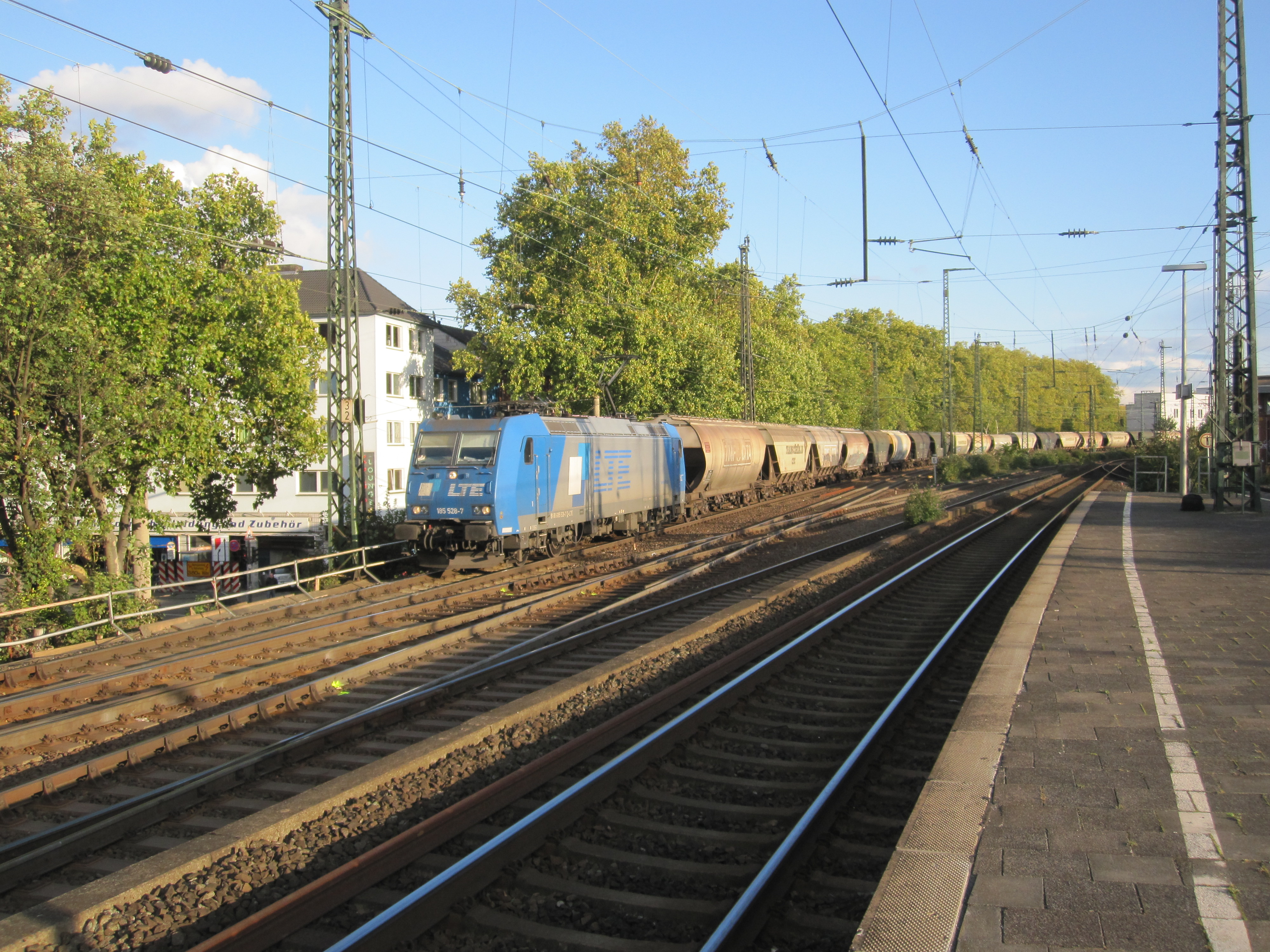 Austrian open access freight operator, Logistik und Transport GmbH (LTE, a subsidiary of passenger operator GKB). As such they own and lease a small batch of class 185 TRAXX locomotives for freight traffic. Seen here is 185.528 passing through Köln Süd on 19 October 2011.